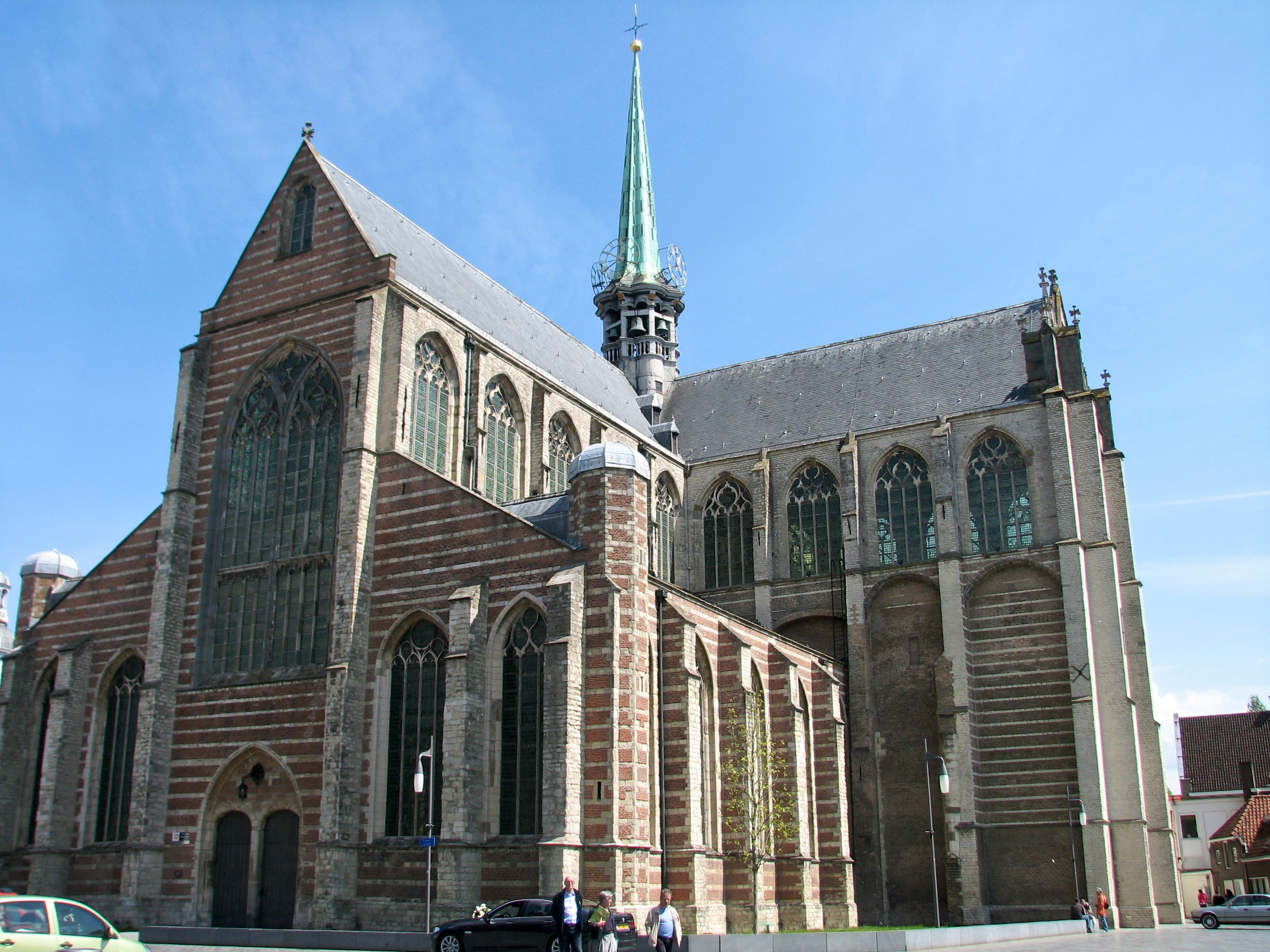 View on the Maria Magdalenakerk in Goes.